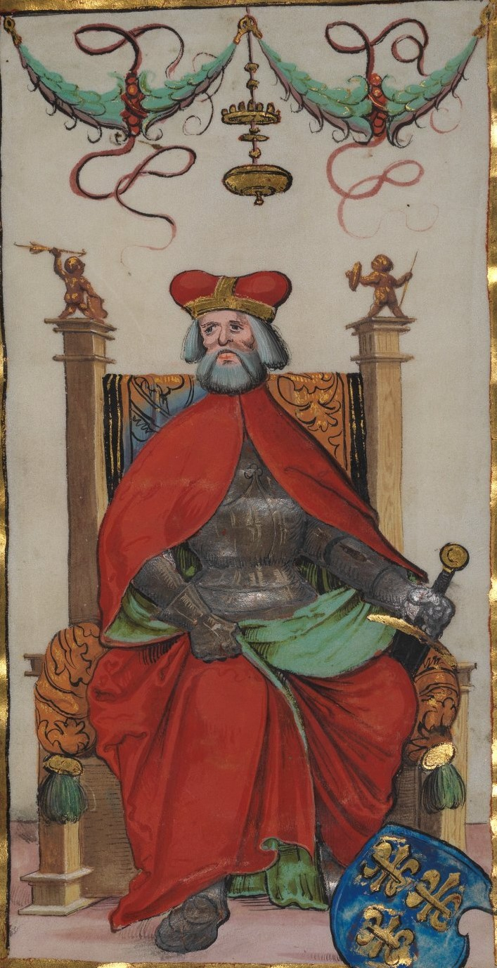 Welf I count in Swabia